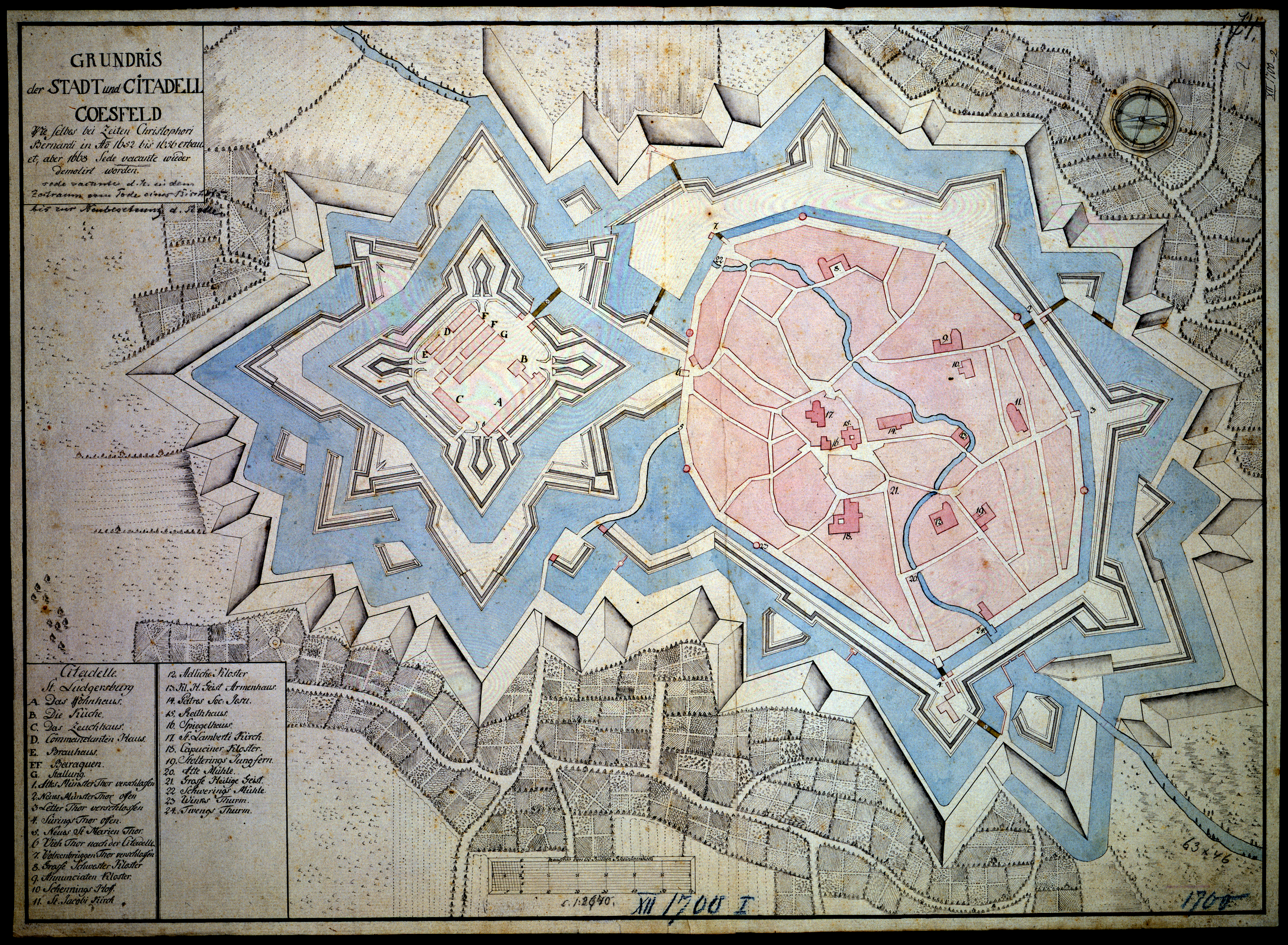 Historical Map of Coesfeld and the citadel Ludgerusburg in Northrhine-Westphalia, Germany. The citadel was build and destroyed in the 17th Century.